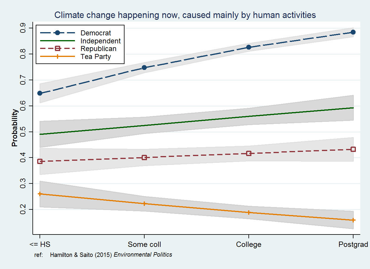 Interaction of education and party affecting whether survey respondents think that climate change is happening now, cased mainly by human activities. See Hamilton & Saito (2015) in Environmental Politics for description of data and methods.